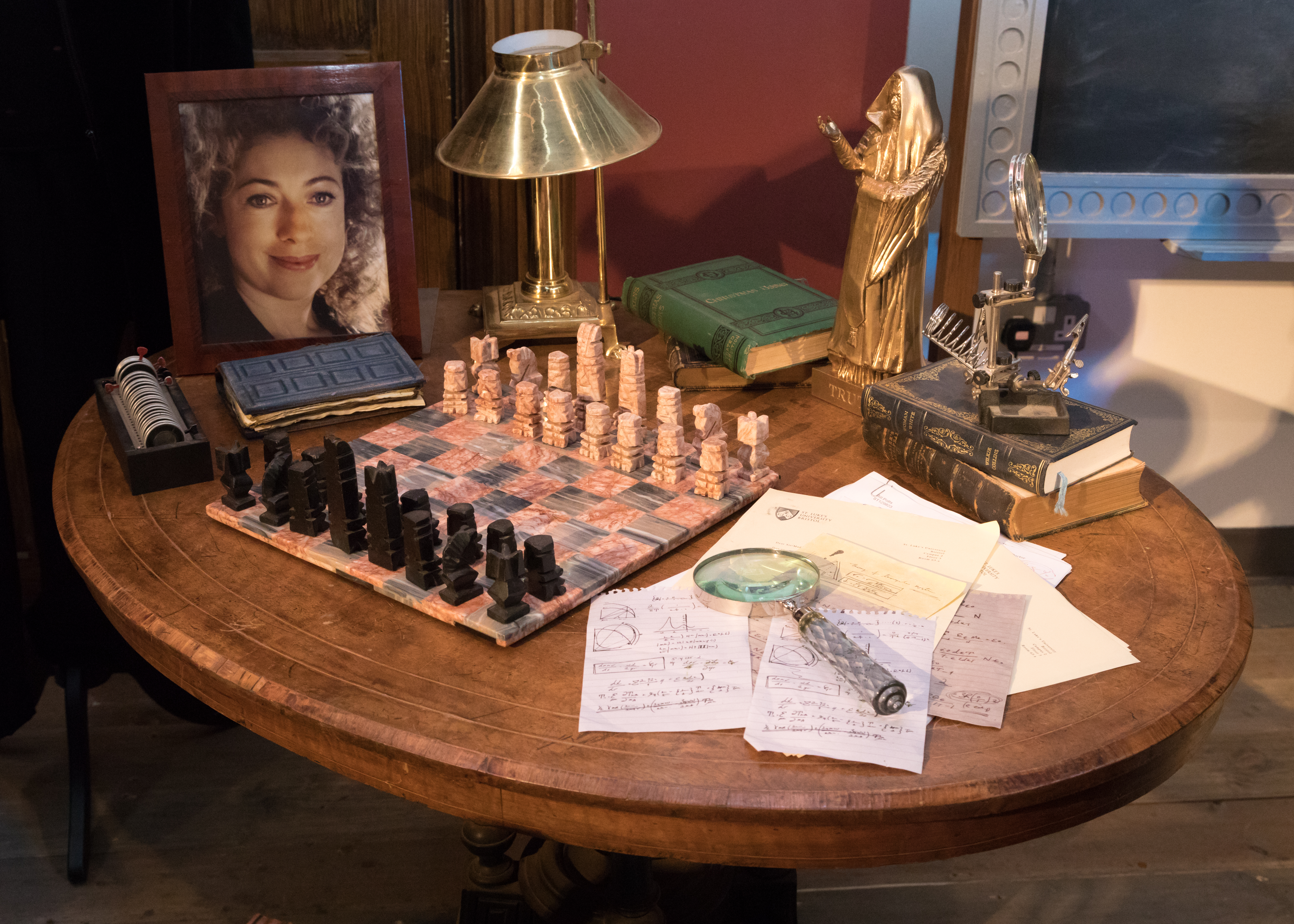 Click here to view my Doctor Who collection Click here to view my Doctor Who locations collection Doctor Who Experience